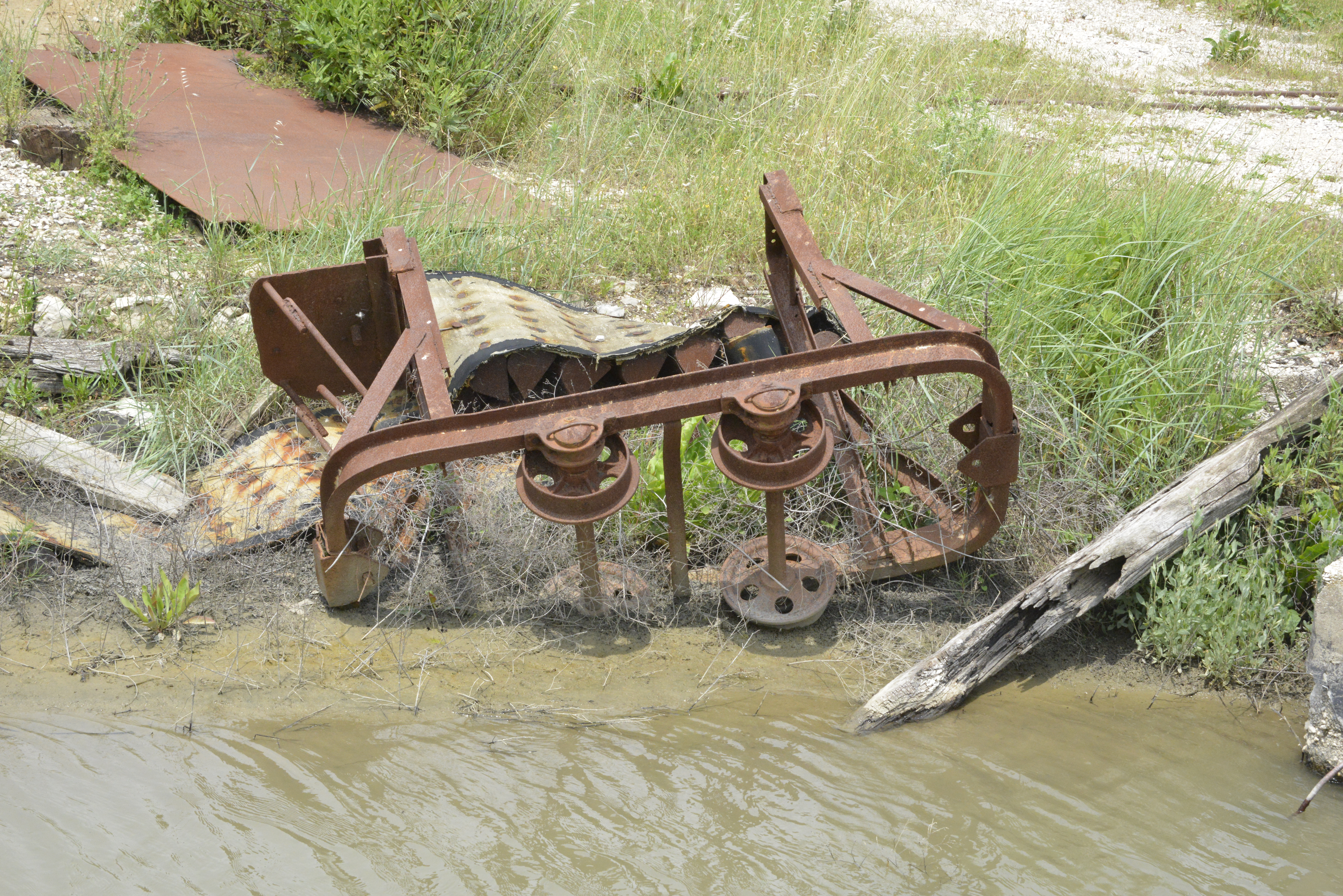 Ulcinj Salinas, summer 2019